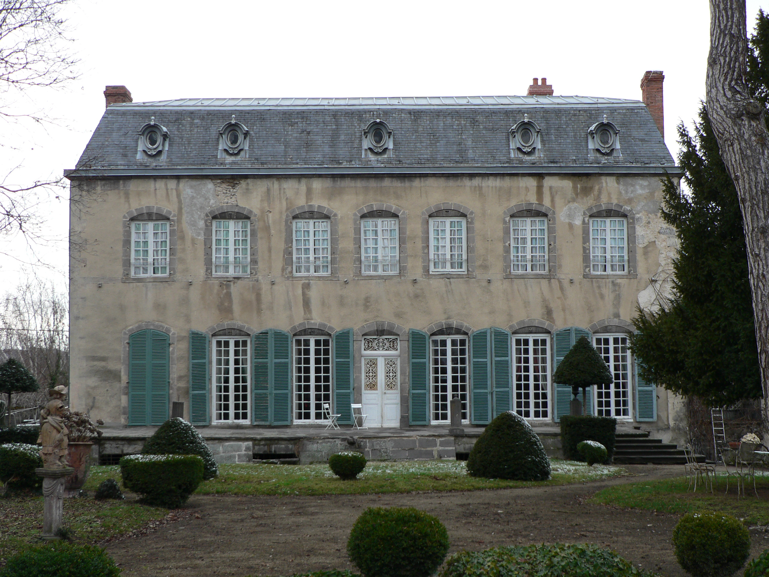 Castle of Portabéraud (Mozac, 63, France).